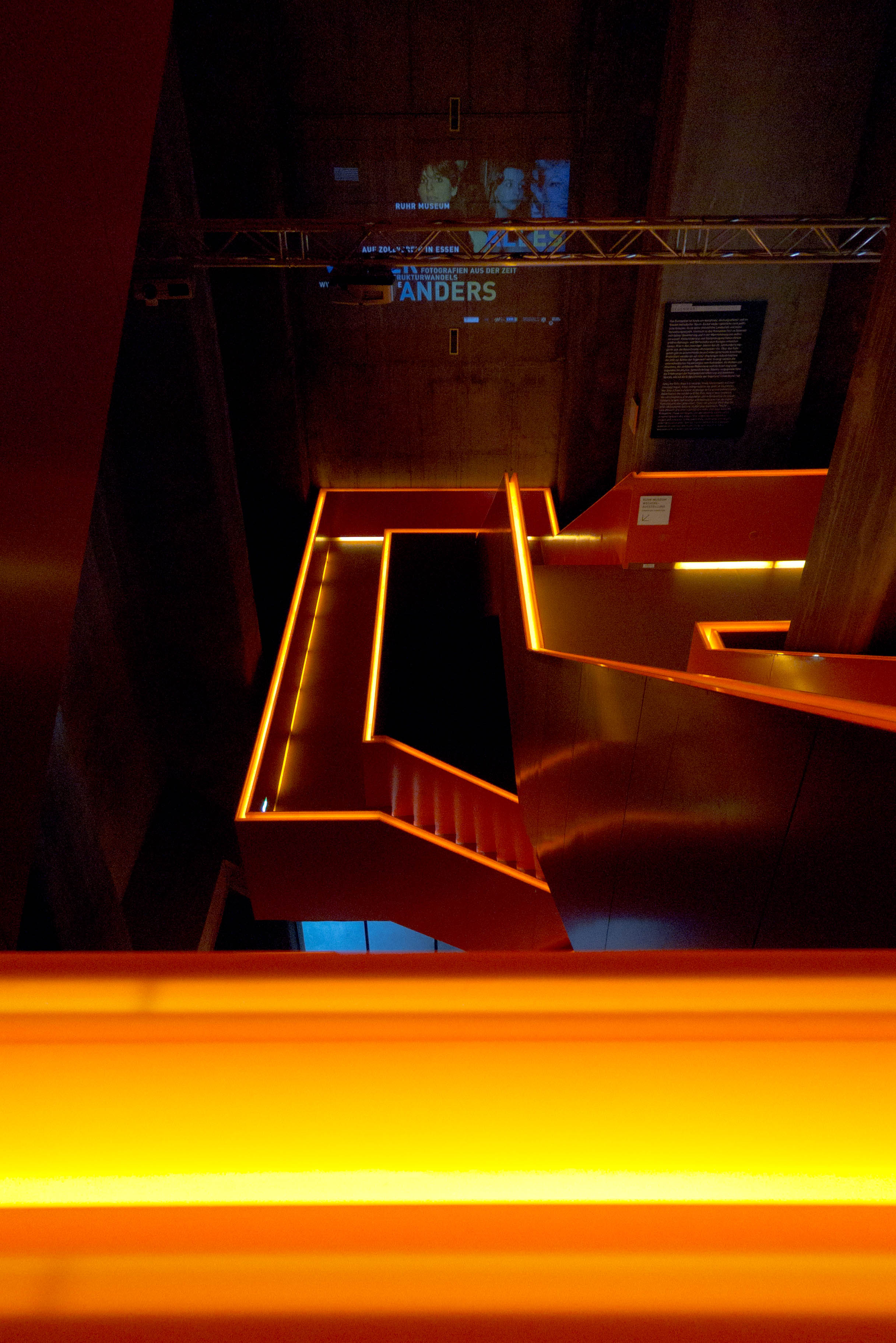 Staircase in Ruhrmuseum Bochum (Zeche Zollverein)